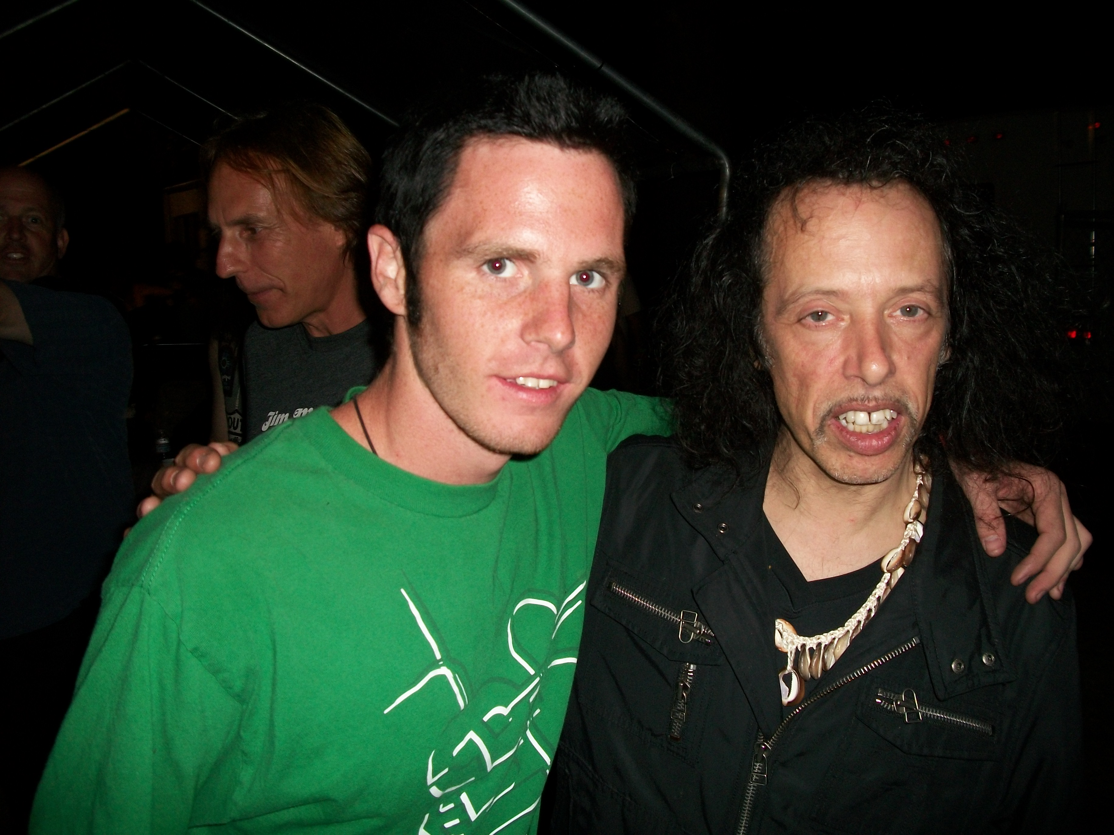 Taken by Luke Slater, Picture owned by steven dubois. Steven Dubois and Randy Hansen